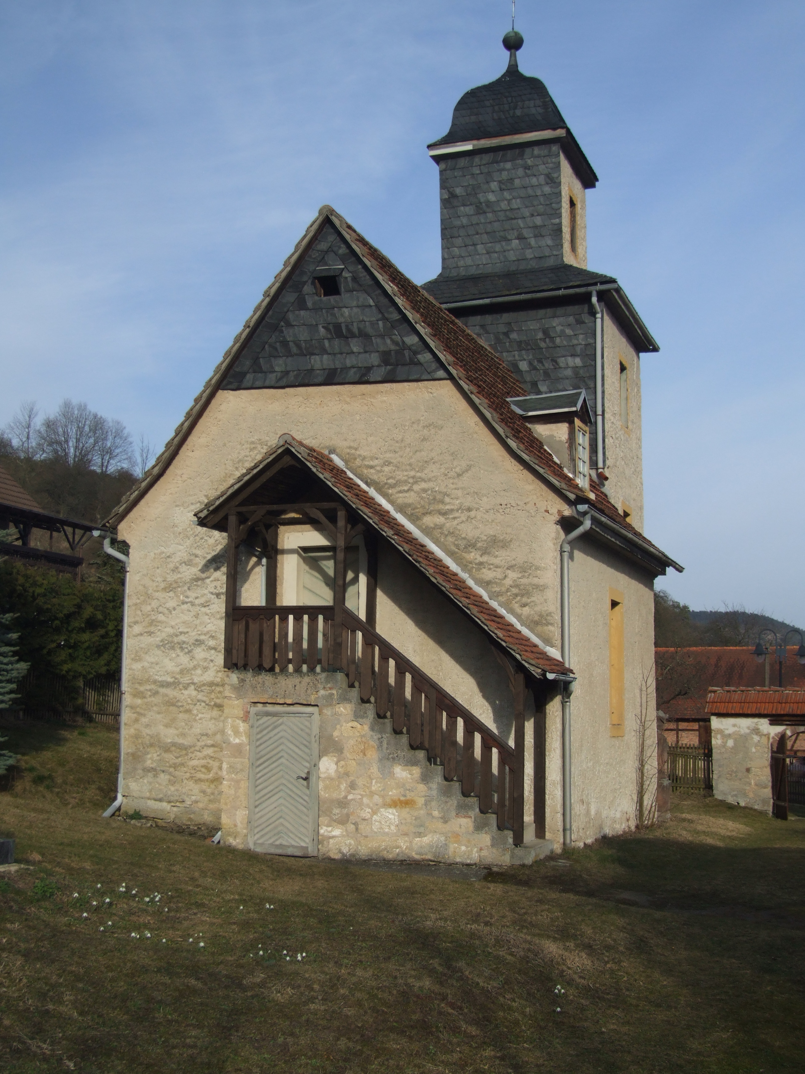 Church Schmieden